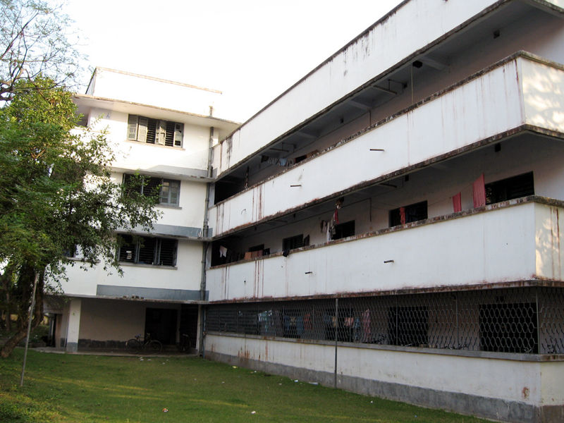 the picture of Rishi Bankim Chandra Hall of Kalyani Government Engineering College